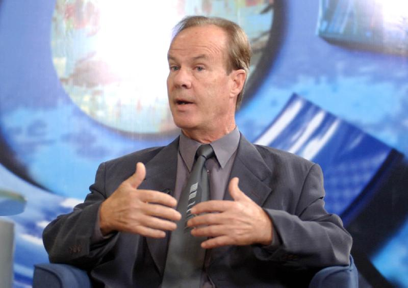 Amado Cervo